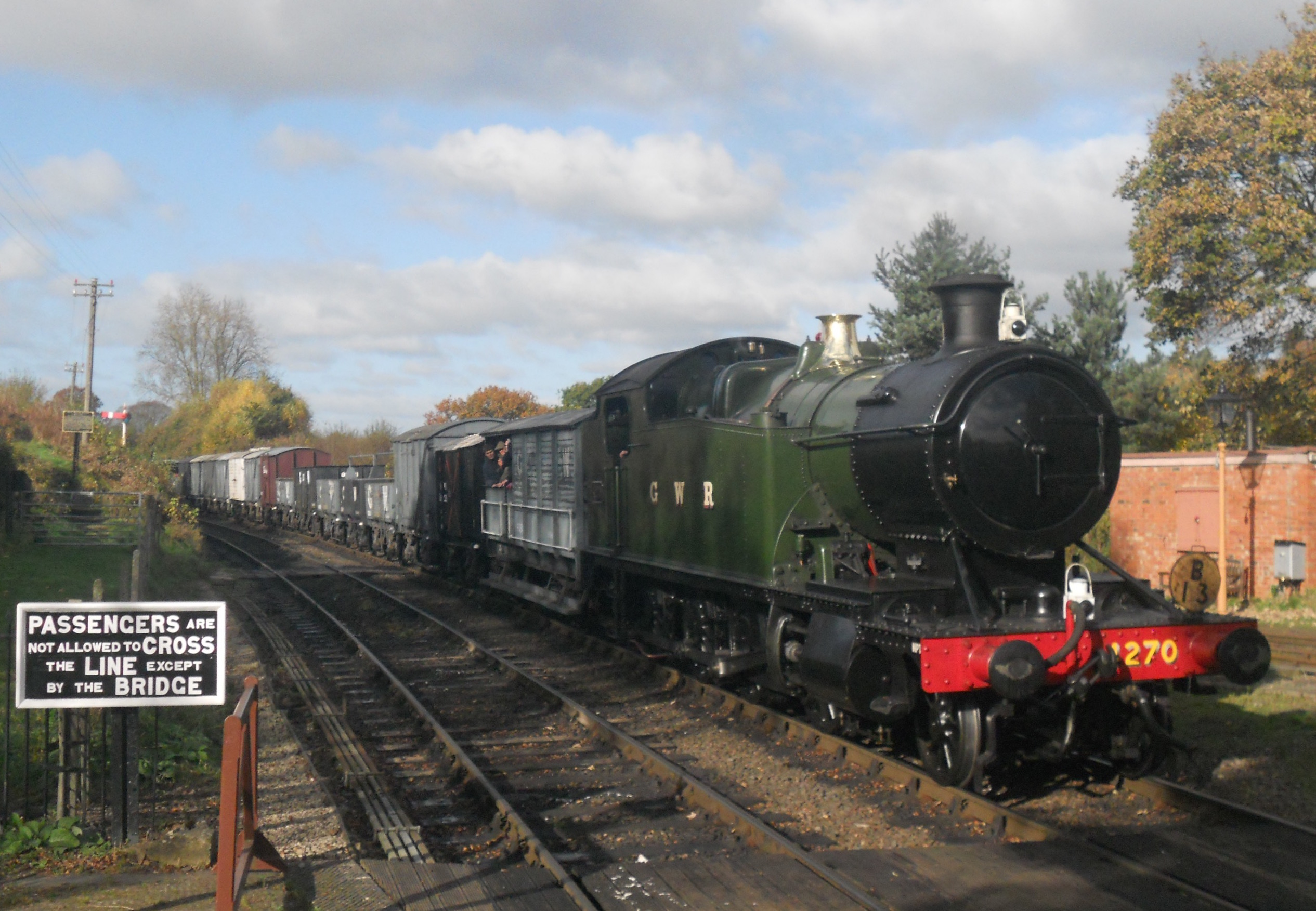 GWR 2-8-0T 42xx Class No. 4270 and a goods train arrive at Arley on the Severn Valley Railway